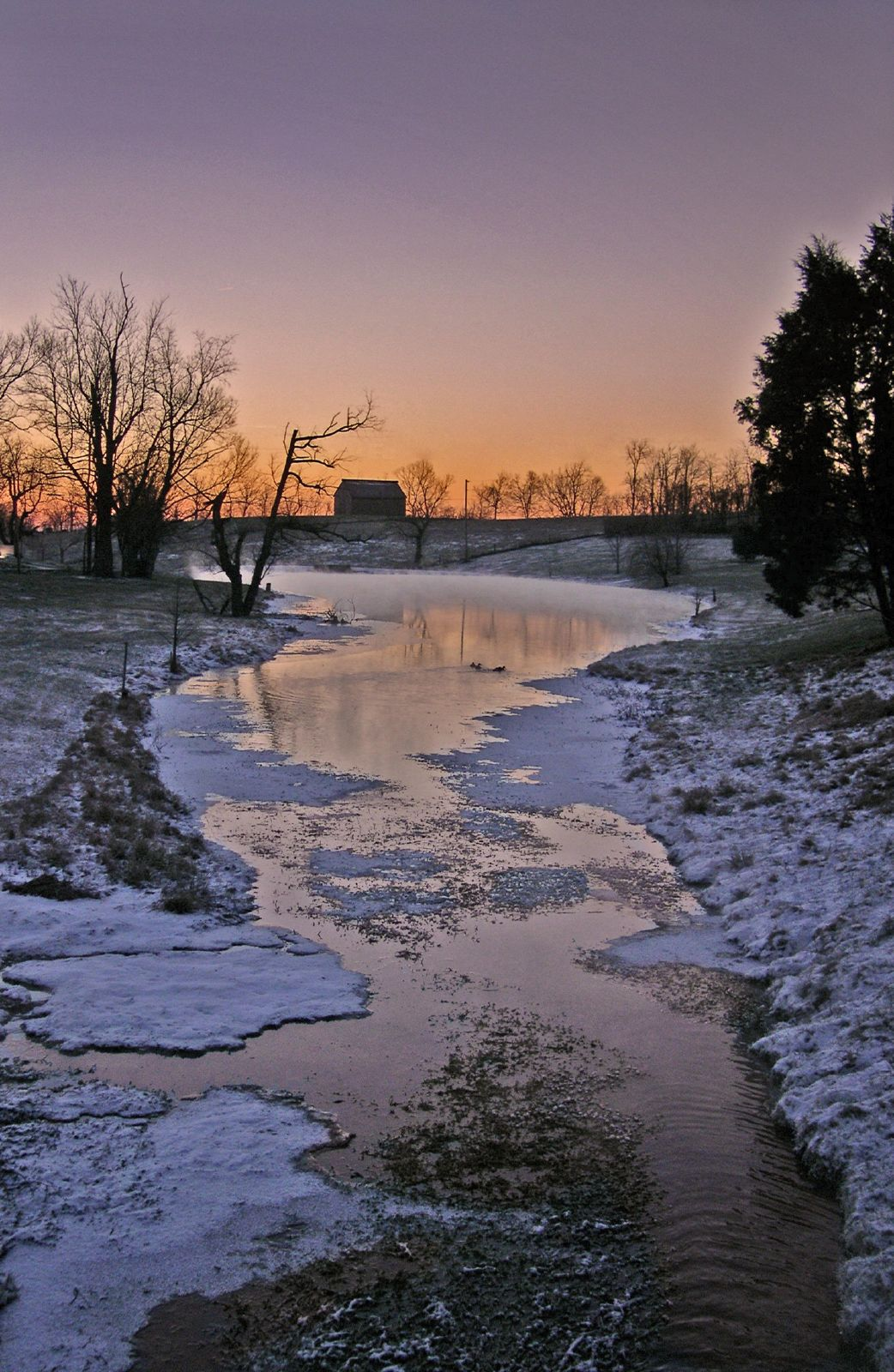 Sunrise in Jessimine County, Kentucky, USA